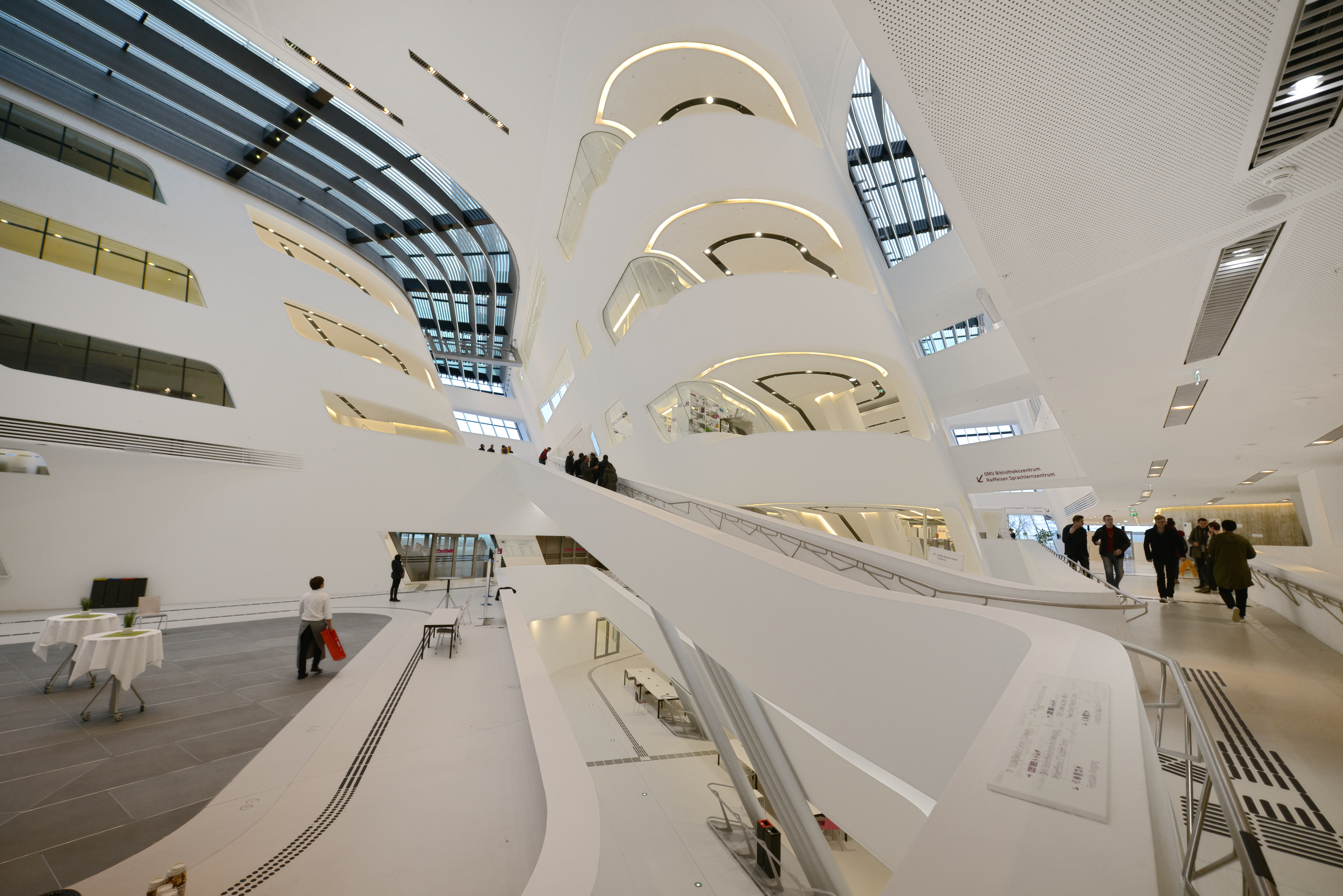 Campus of the Vienna University of Economics and Business, Library and Learning Center (architect: Zaha Hadid), Welthandelsplatz 1, 2nd district of Vienna.